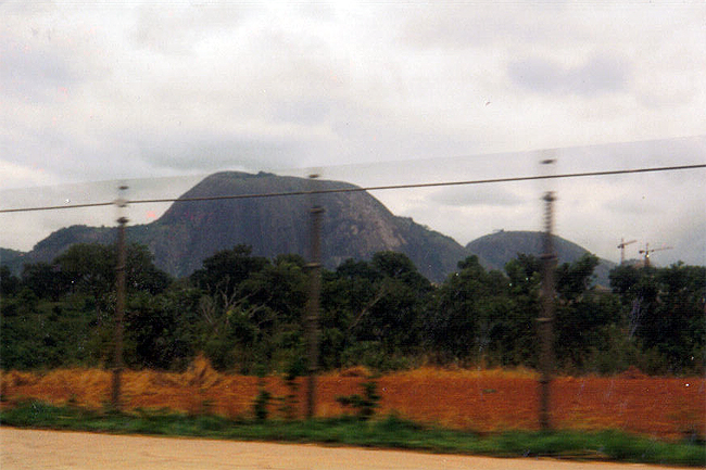 Aso Rock.